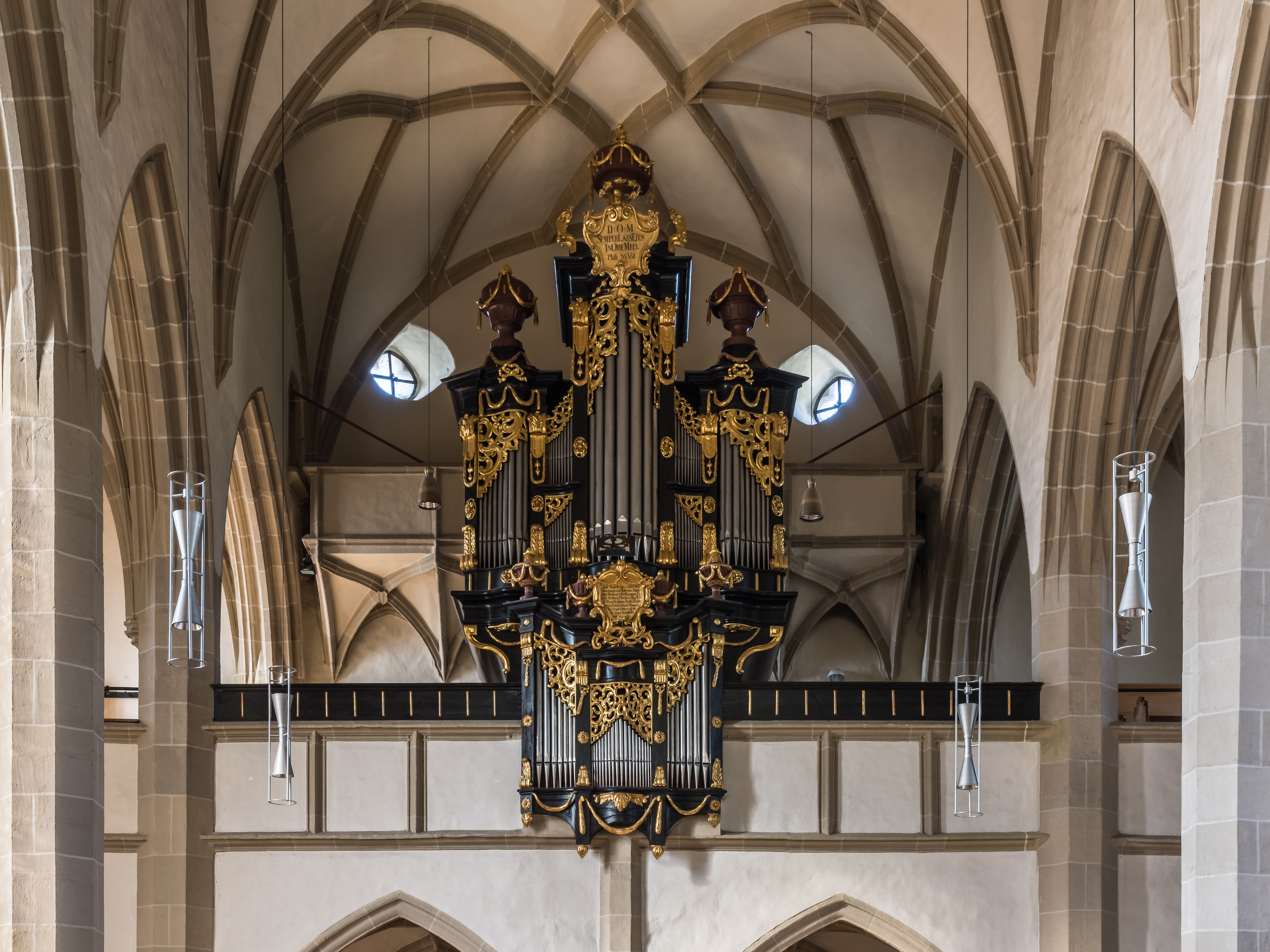 Pipe organ at the parish- and pilgrimage church Kefermarkt, Upper Austria. Lorenz Franz Richter, II/16, built in 1777.